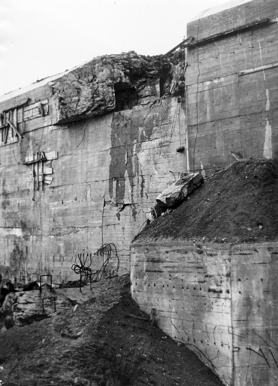 Damage to the south side of the Watten bunker caused by a British Tallboy bomb.